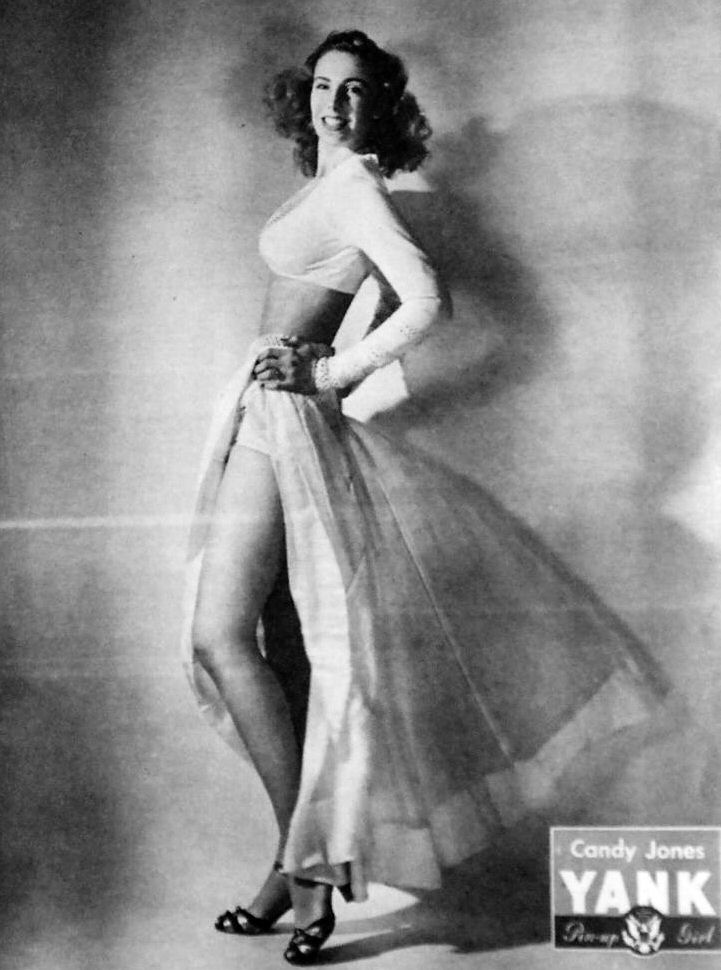 Pin-up photo of Candy Jones for the Nov. 30, 1945 issue of Yank, the Army Weekly, a weekly U.S. Army magazine fully staffed by enlisted men.